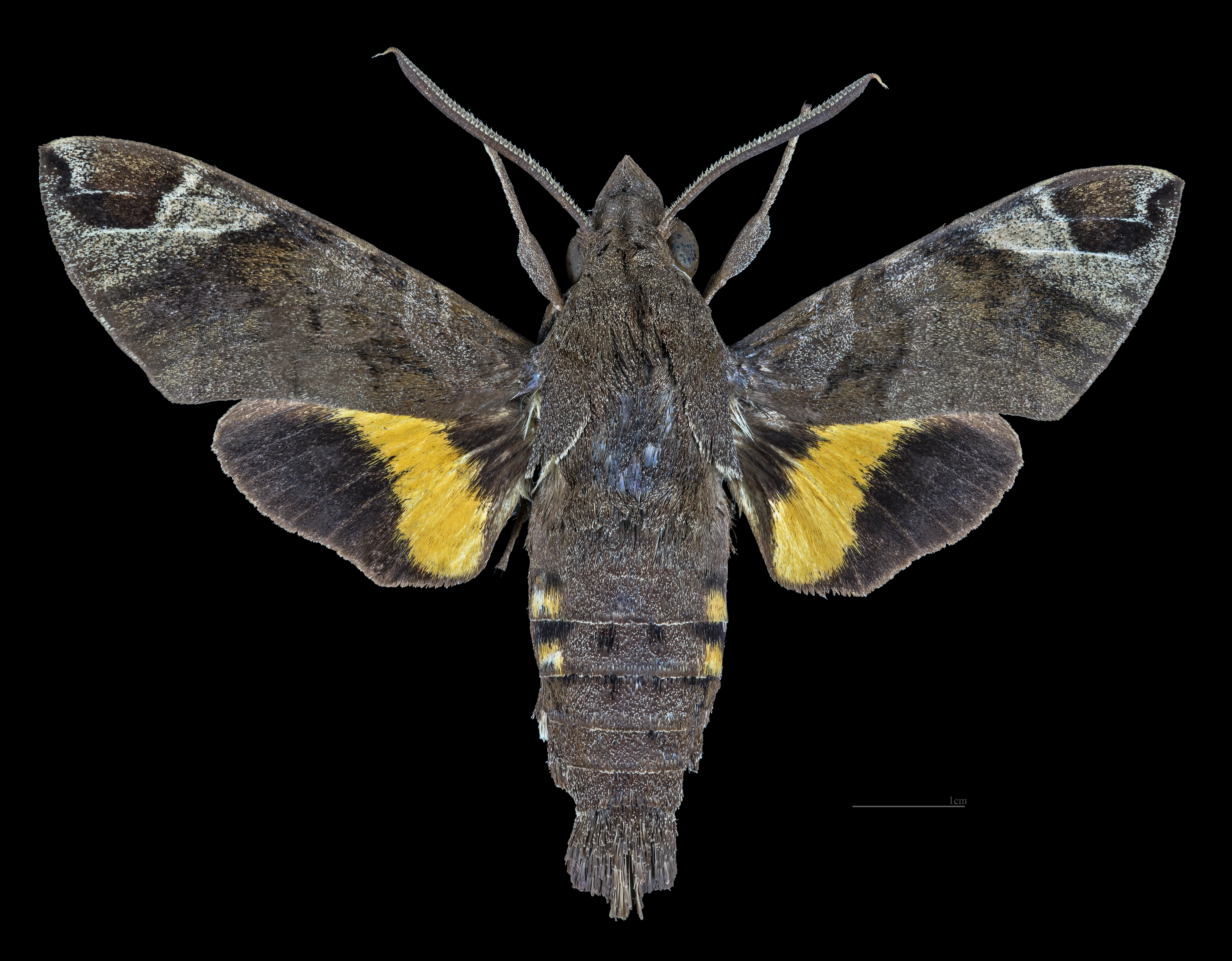 Hermit hummingbird hawkmoth - Dorsal side Collection of the Mathematician Laurent Schwartz